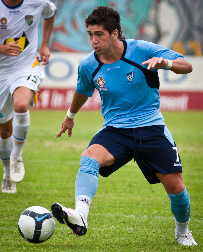 Dimitri Petratos playing for Sydney FC in the 2008/2009 National Youth League.